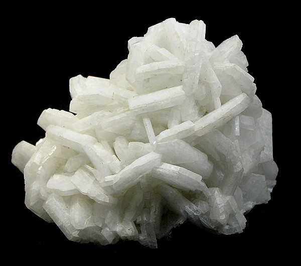 Albite Locality: Minas Gerais, Southeast Region, Brazil (Locality at ) Size: 8.2 x 6.8 x 6.2 cm. A superb rosette of snowy, bladed albite crystals, out of the Richard Hauck collection, from Brazil.